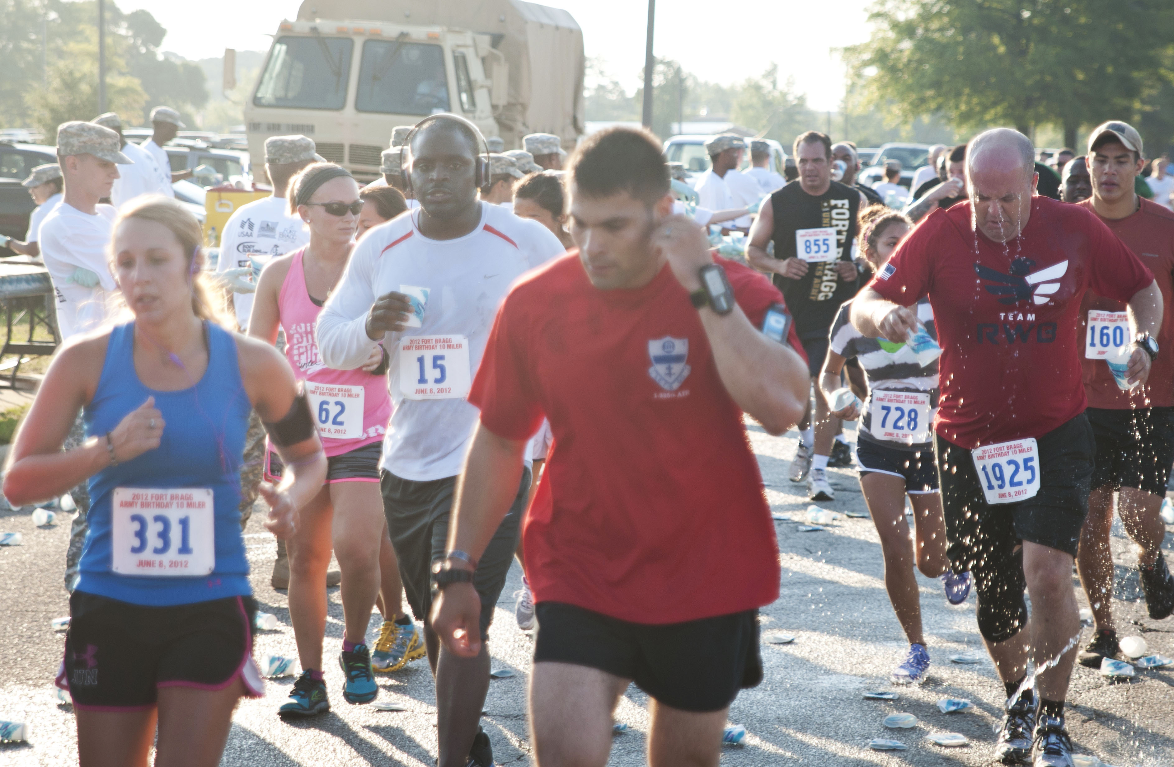 Thousands of participants run the Fort Bragg 16th Annual Army Birthday 10-miler, passing through the heart of Fort Bragg, N.C., June 8, 2010. U.S. Army Staff Sgt. Caleb Barrieau